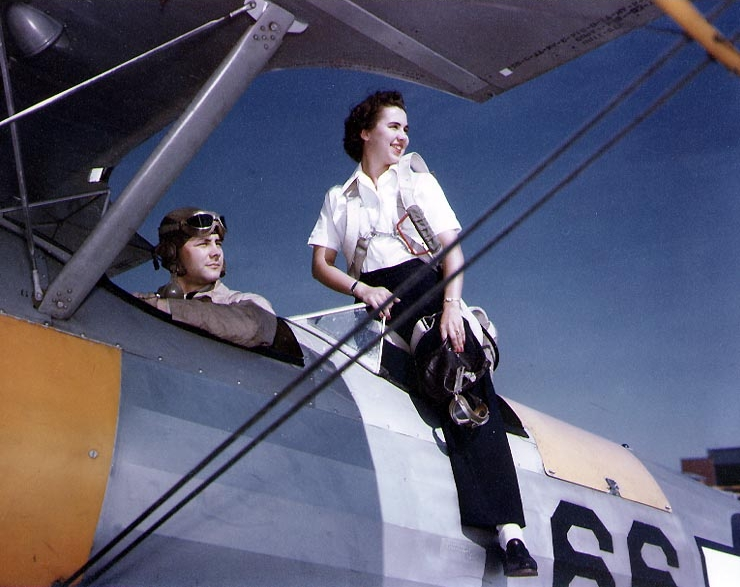 U.S. Navy Parachute Rigger 3rd Class Lorna Peterson, USNR(W), climbs out of the after cockpit of a Stearman N2S training plane, following an orientation flight at Naval Air Station Ottumwa, Iowa (USA), circa 1944-45. The pilot was Lieutenant (Junior Grade) Keith W. Sharer, USNR, a flight instructor at the station.